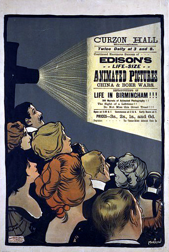 Edison's Life-size Animated Pictures, China and Boer Wars. Colour lithograph poster advertising a cinematic showing at the Curzon Hall, Birmingham. Victoria and Albert Museum, London, Museum number: E.3312-1932